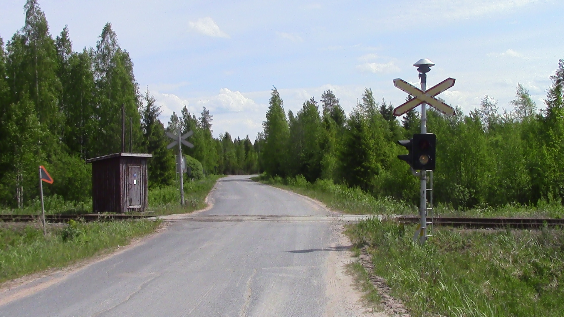 Finnish connecting road 2603 at Jämijärvi-Sydänmaa level crossing in Jämijärvi. The road runs from Jämijärvi to national road 23.